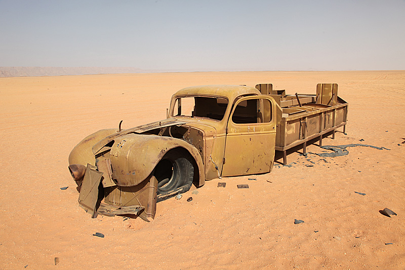 Convoy truck (1940 Chevrolet Maple Leaf truck) from the World War II, 23 32 11 N 25 11 47 E, Western Desert, Egypt